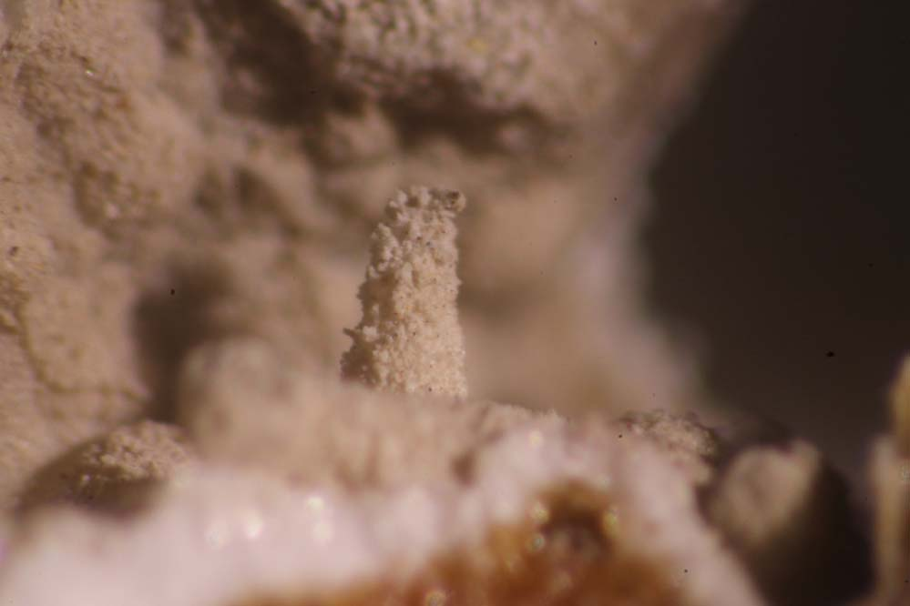 White crystal aggregates of brizziite, a very rare mineral with formula NaSb5+O3, that is found in only two localities worldwide, both in Tuscany. This is from Le Cetine Mine, Siena, Tuscany, Italy.